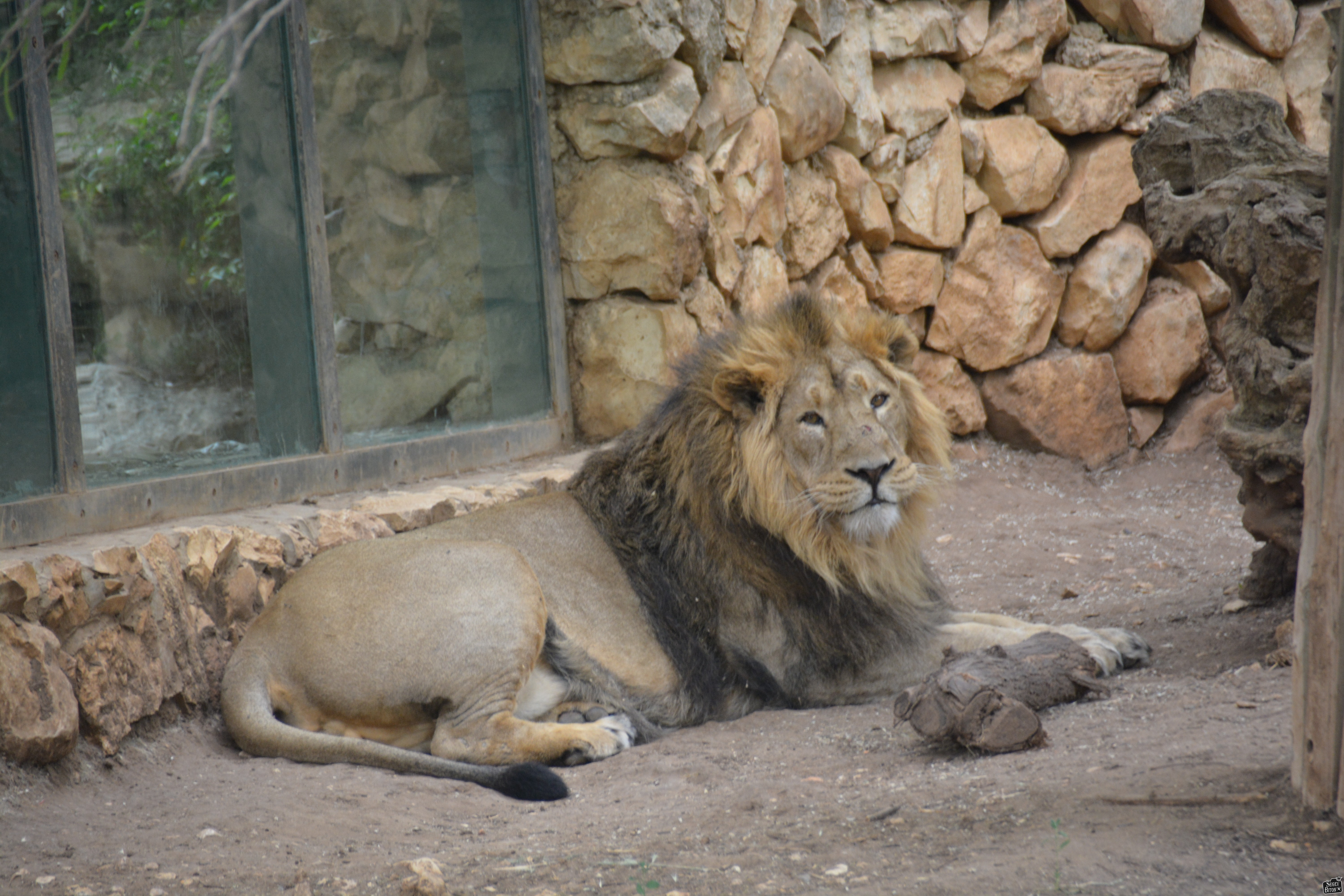 An Asiatic Lion (Panthera leo persica) at the Jerusalem Biblical Zoo.